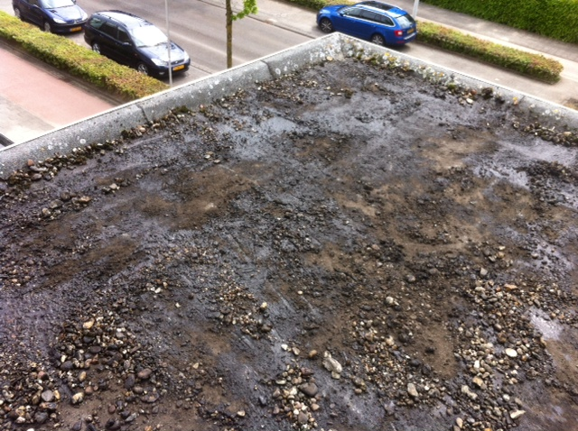 dirty roof